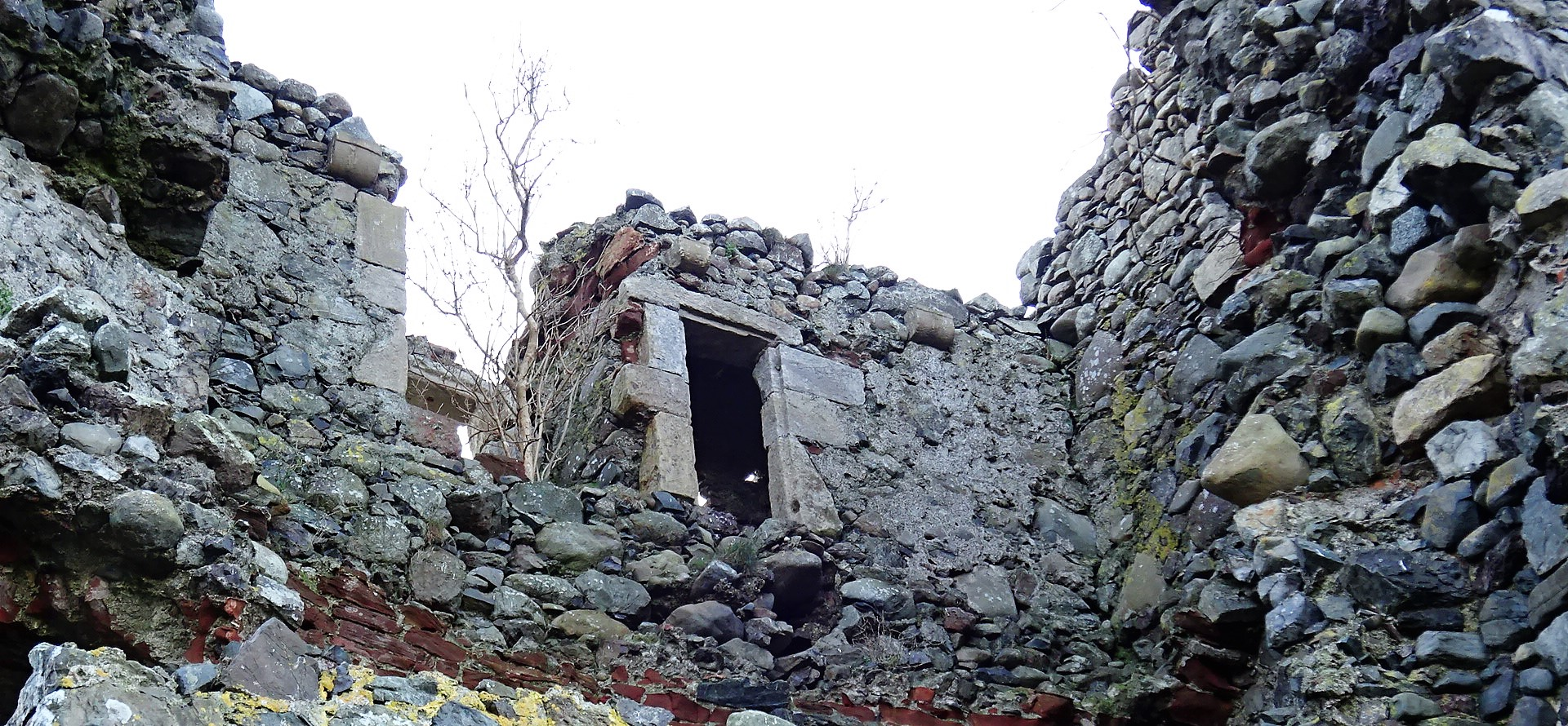 Carleton Castle ruin construction details, Little Carleton Farm, Lendalfoot, South Ayrshire, Scotland. Once owned by the Cathcarts of Killochan.